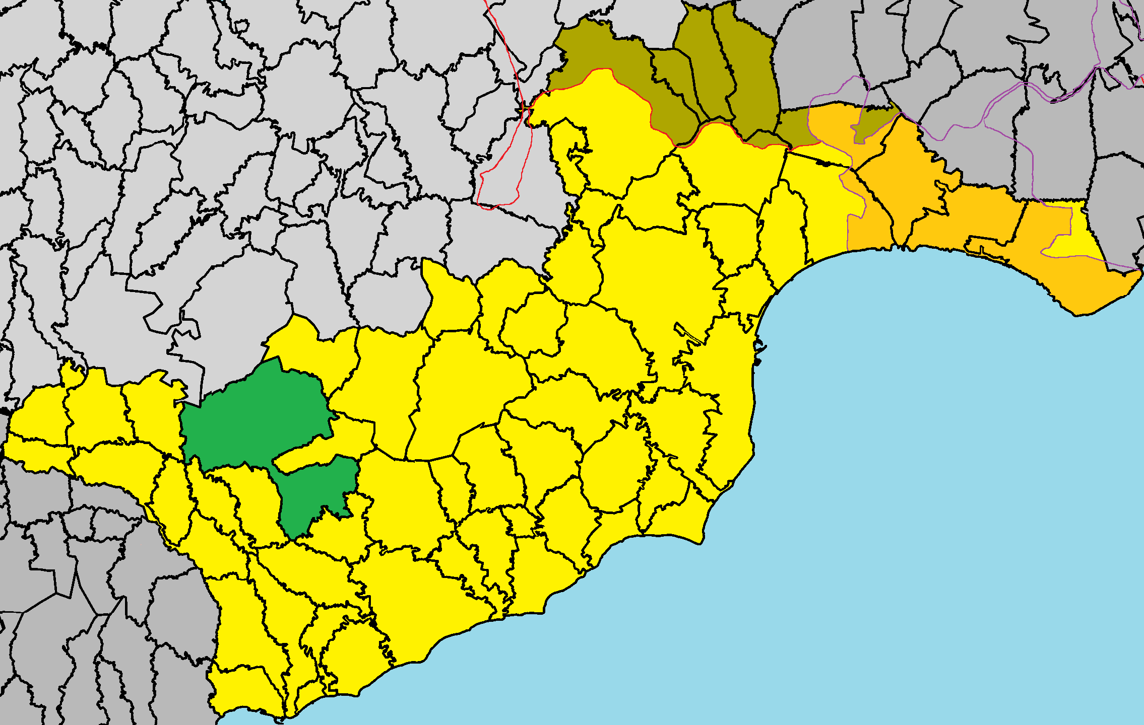 Pano Lefkara in Larnaca District.